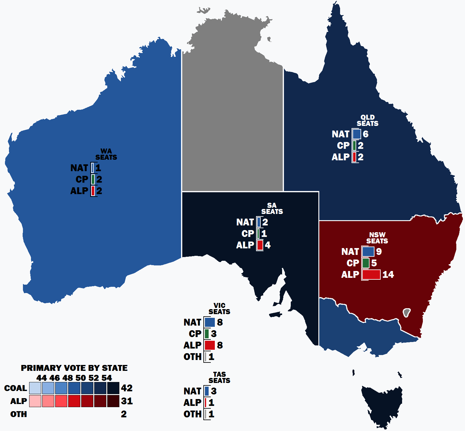 Result of the primary vote by state in the 1928 Australian federal election.